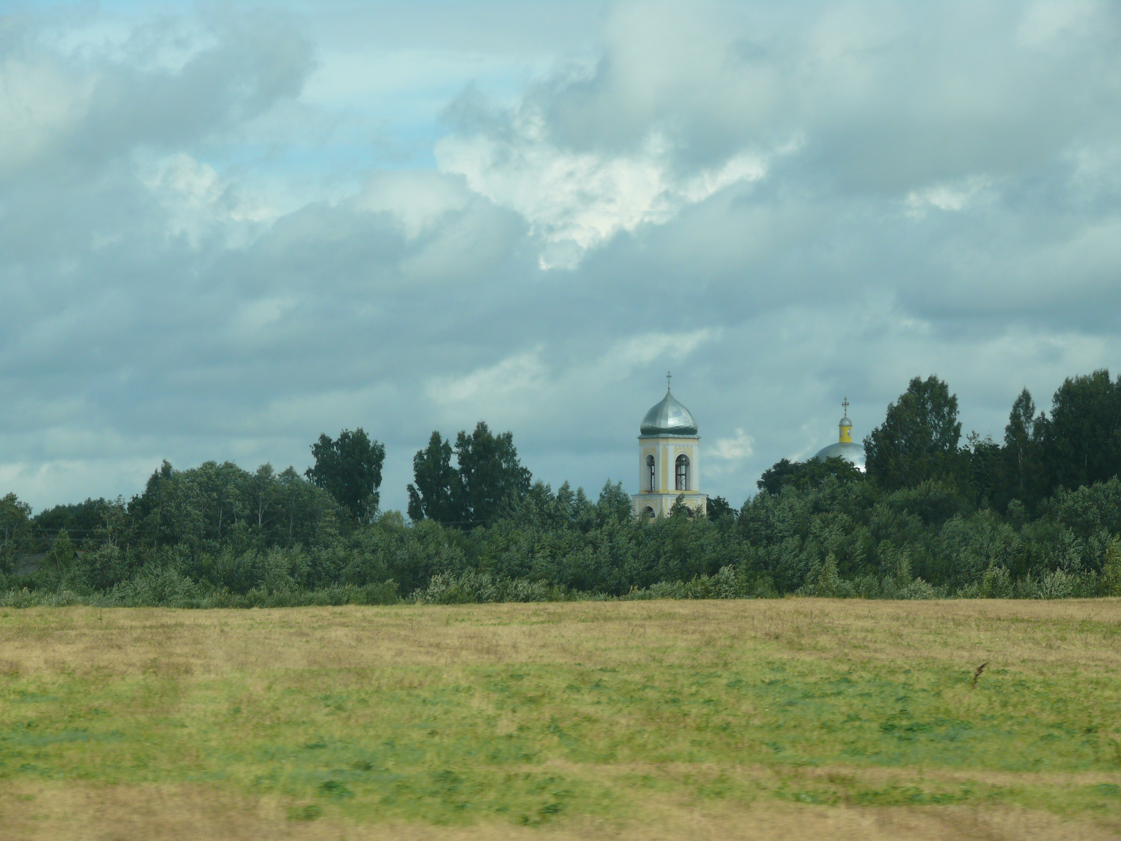 Churche of Ascension in Chiornoe village. Batetsky District, Novgorod oblast, Russia